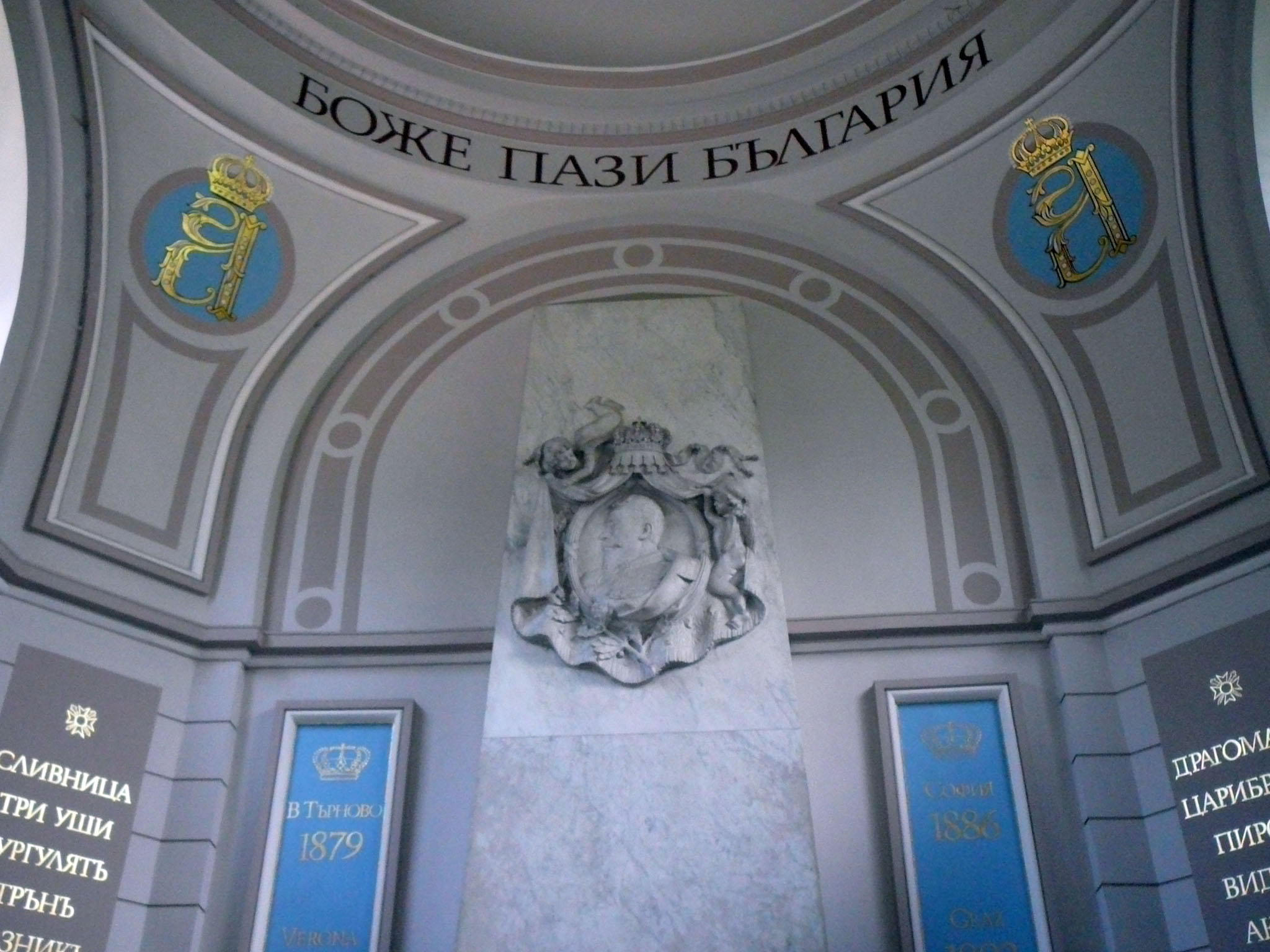 Battenberg Mausoleum in Sofia, Bulgaria